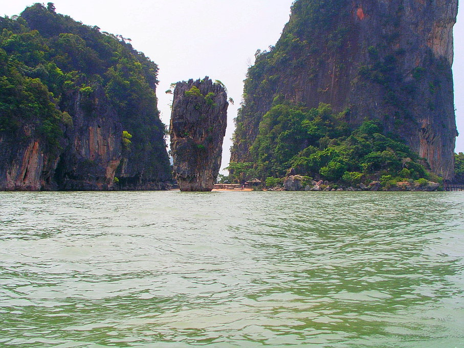 Khao Tapu: "James Bond Island" – Phang Nga, southern Thailand